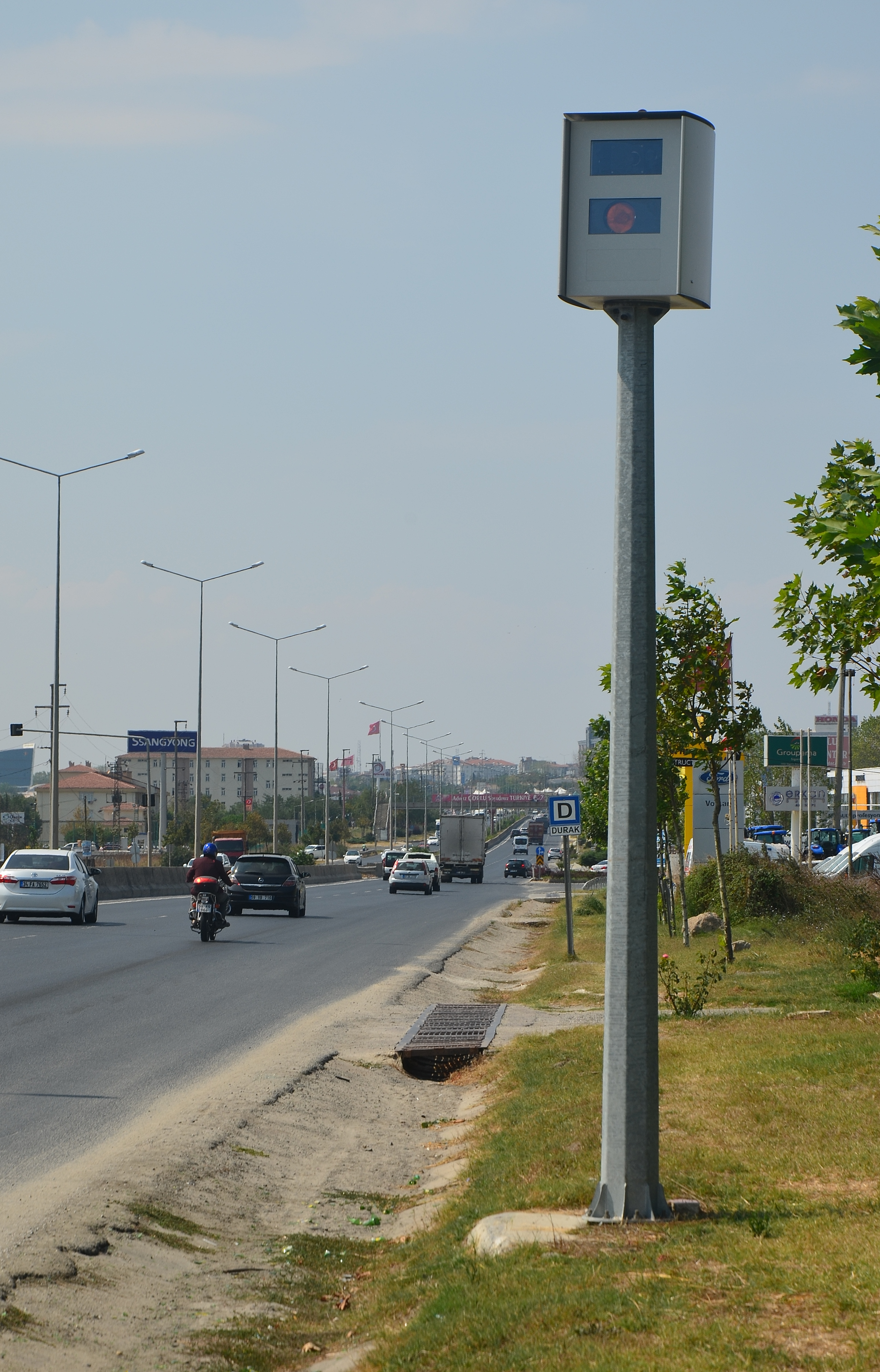 Speed camera for TEDES ("Trafik Elektronik Denetleme Sistemi" for "Electronic Traffic Control System") on the state road D-100 in Çorlu, Tekirdağ Province, Turkey